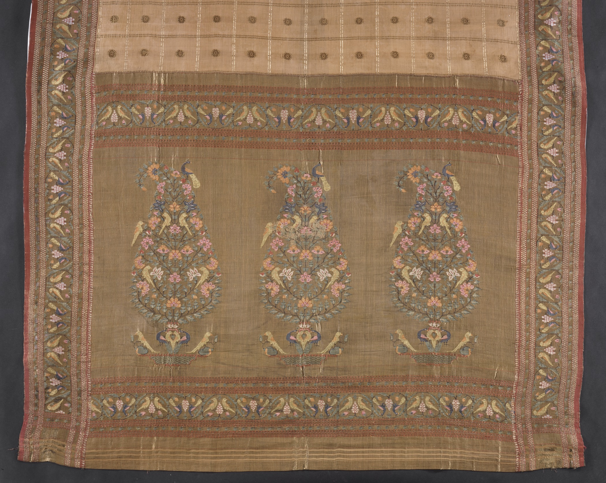 India, probably Maharashtra, Paithan or Madhya Pradesh, Chanderi, 19th century Costumes; ceremonial or ritual dress Cotton, silk and metallic thread; plain weave with supplementary warp and weft patterning and double interlock tapestry 126 1/2 x 48 1/4 in. (321.31 x 122.56 cm) From the Nasli and Alice Heeramaneck Collection, Museum Associates Purchase (M.75.4.23) Costume and Textiles